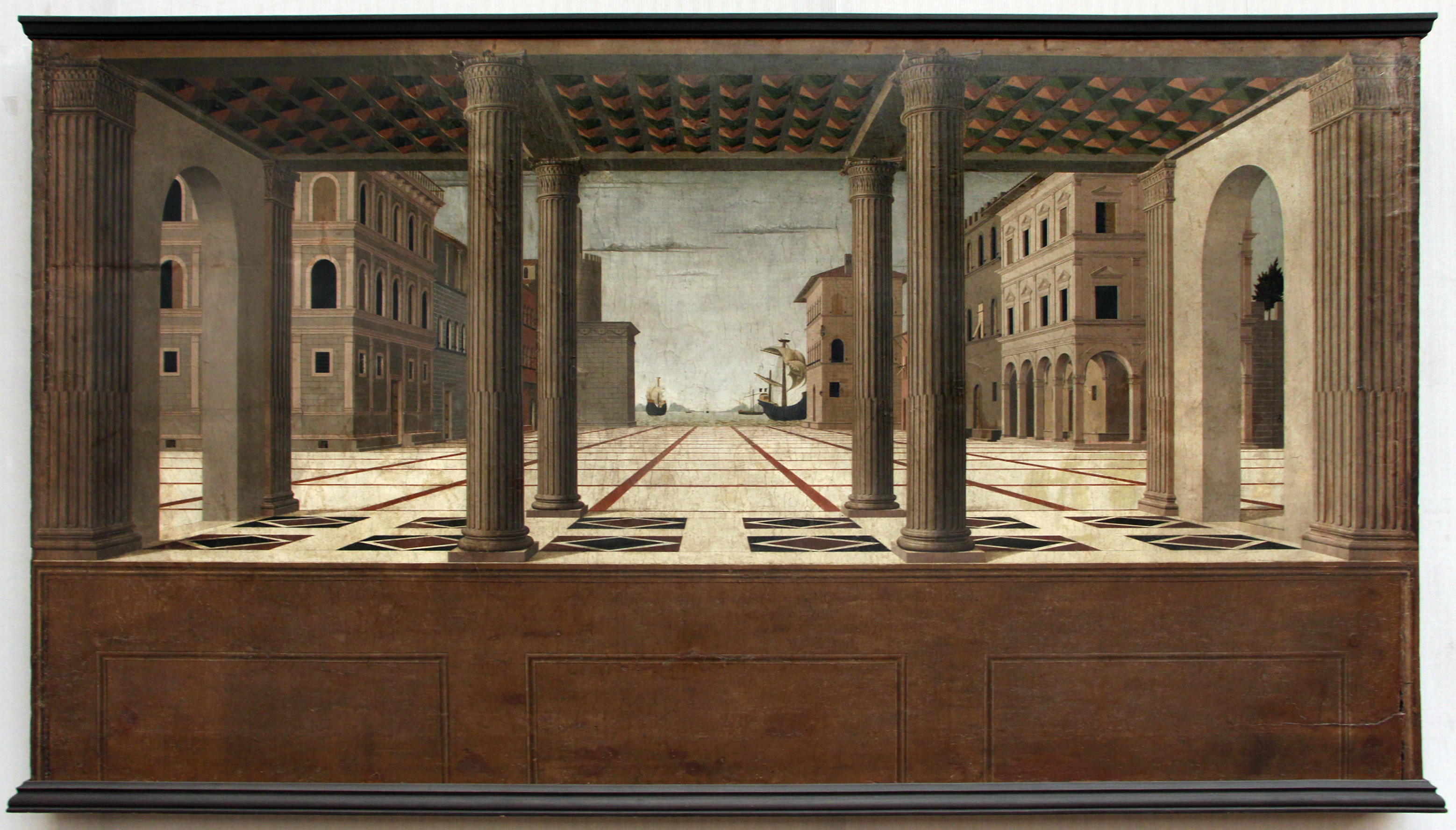 Ideal City